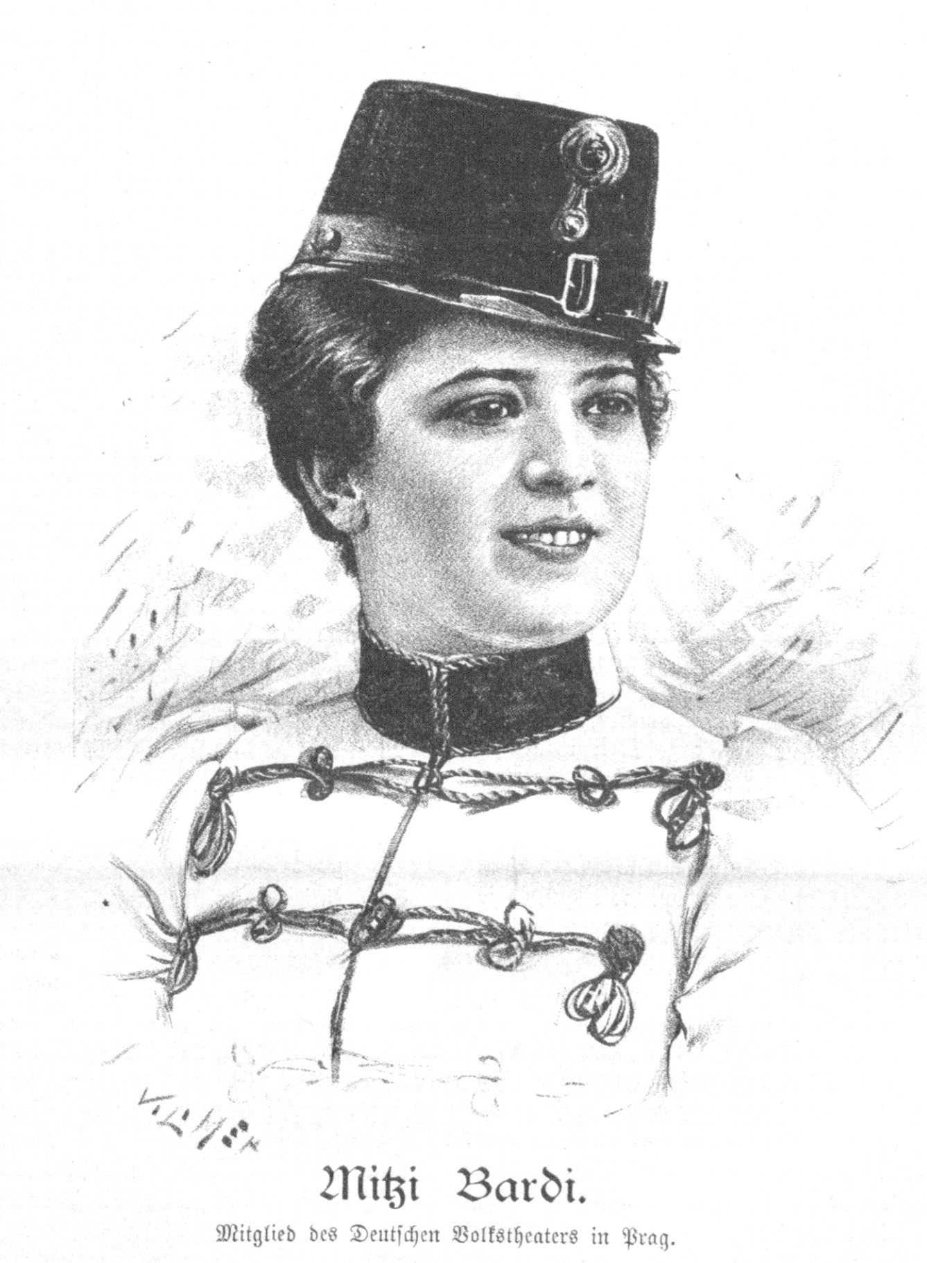 Portrait of Marie Bardi, Austrian actress and singer active in the late 1890s and the early 1900s.